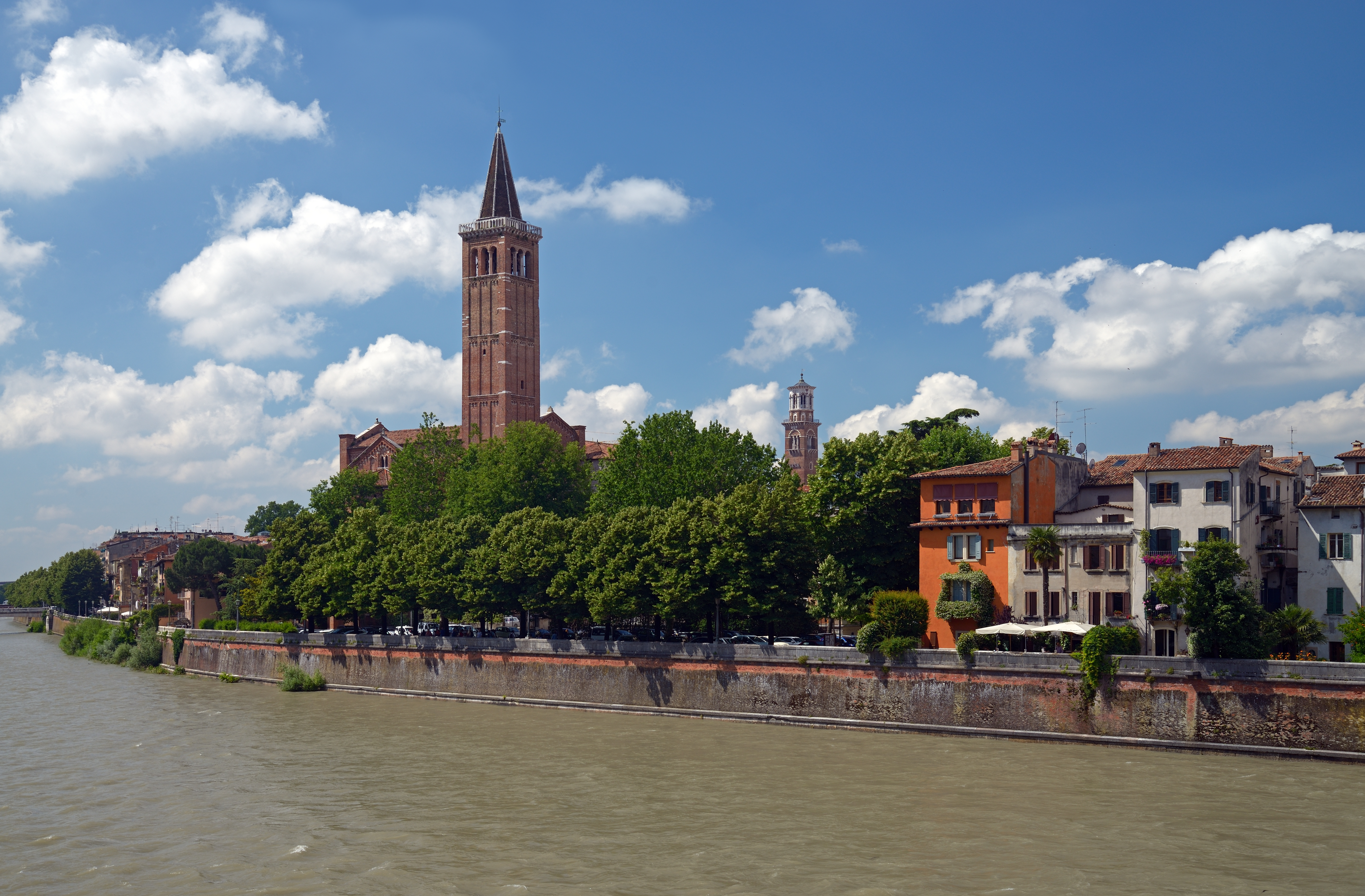 Saint Anastasia,view from Ponte Pietra. Verona,Italy.